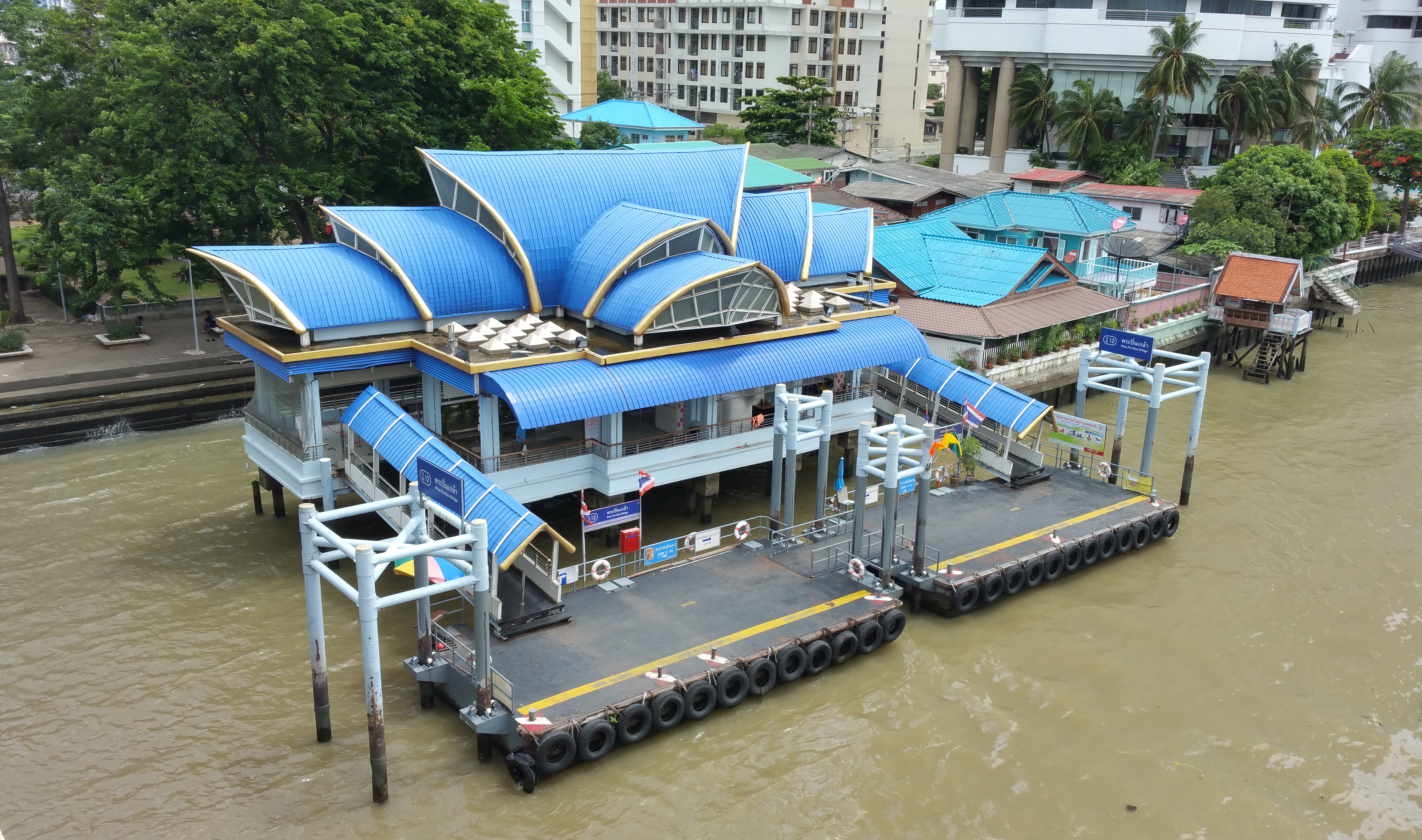 Pier 12, Phra Pin Klao Bridge on the Chao Phraya river, Bangkok.